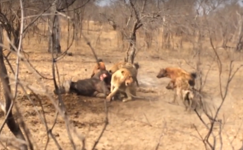 Hyenas clashing with lions at the Sabi Game Reserve